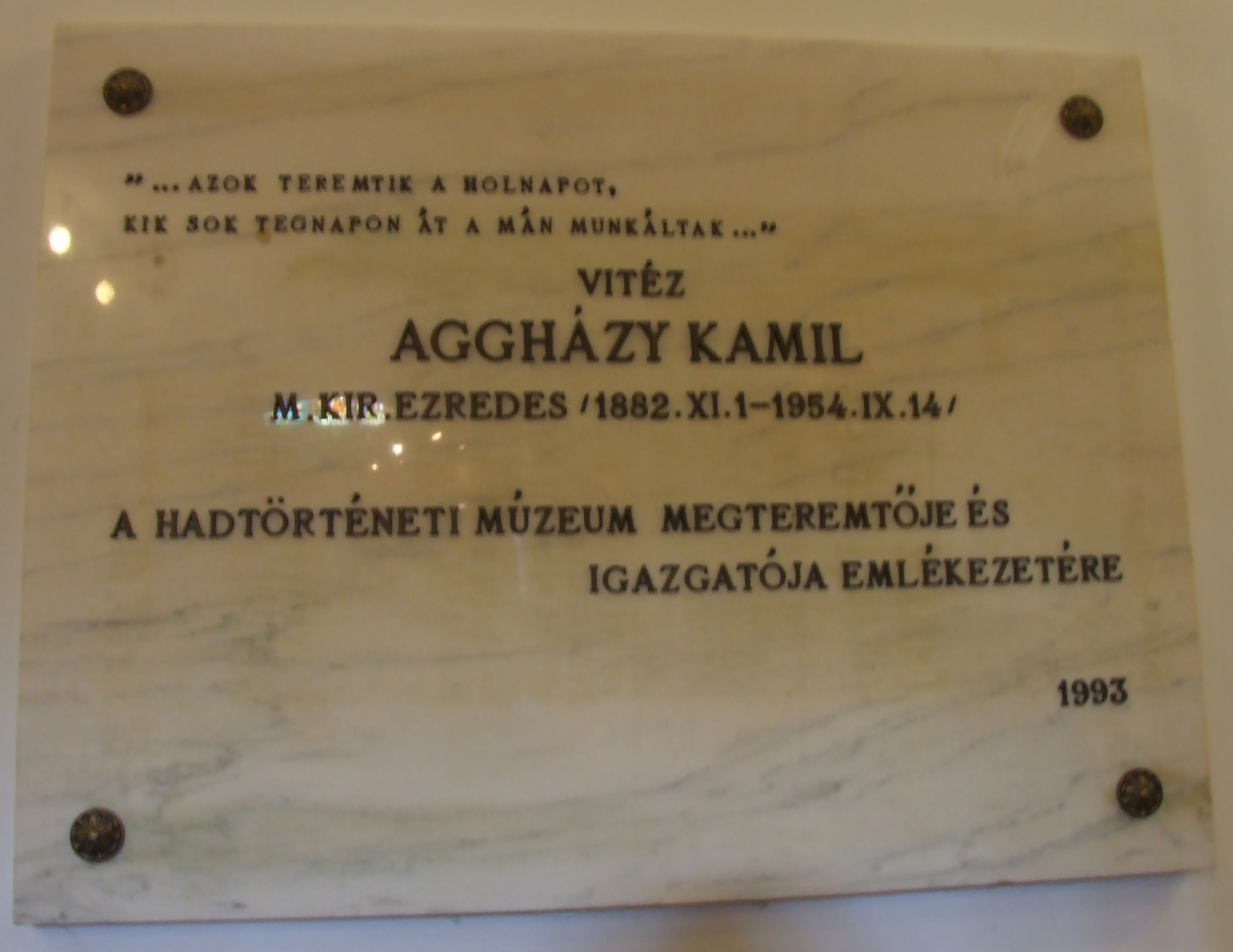 Kamil Aggházy commemorative plaque in the Museum of Military History, Budapest. Budapest District I, Tóth Árpád Alley No 40